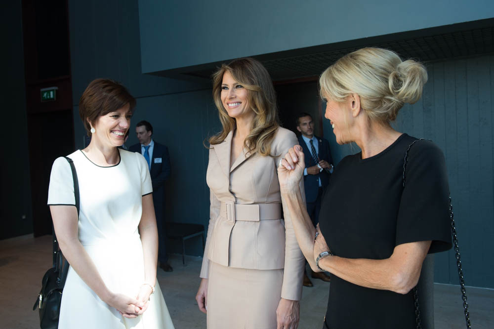 First Lady Melania Trump joins the First Lady of France, Brigitte Macron, and Belgium’s Amélie Derbaudrenghien, during their visit Thursday, May 25, 2017, to the Magritte Museum in Brussels. (Official White House Photo by Andrea Hanks) Melania Trump wears a dress by Maison Ullens